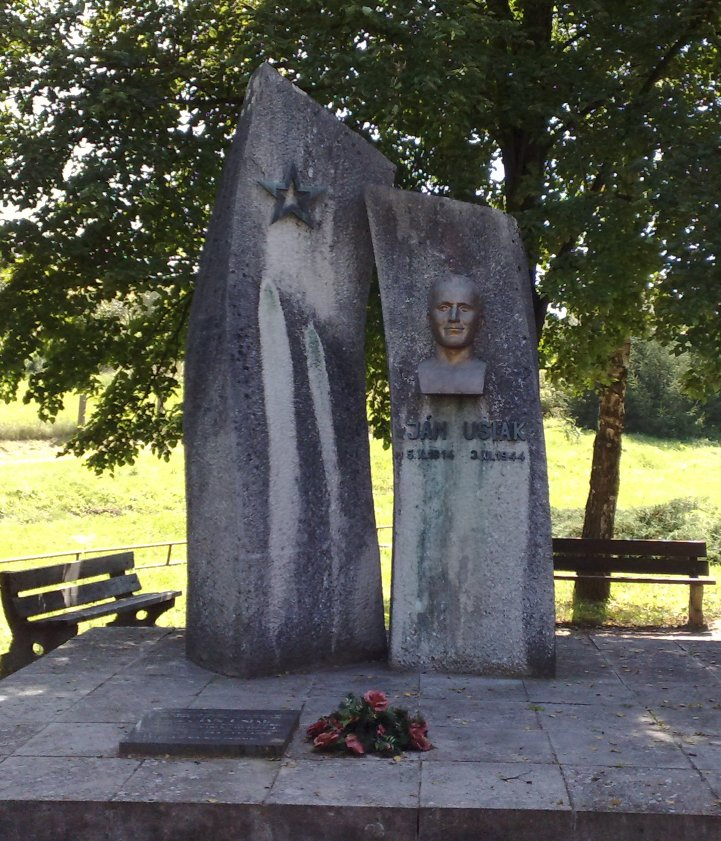 Monument of partisan commander Jan Usiak in the suburb of Rimavska Soobota, Bakta, Slovakia.